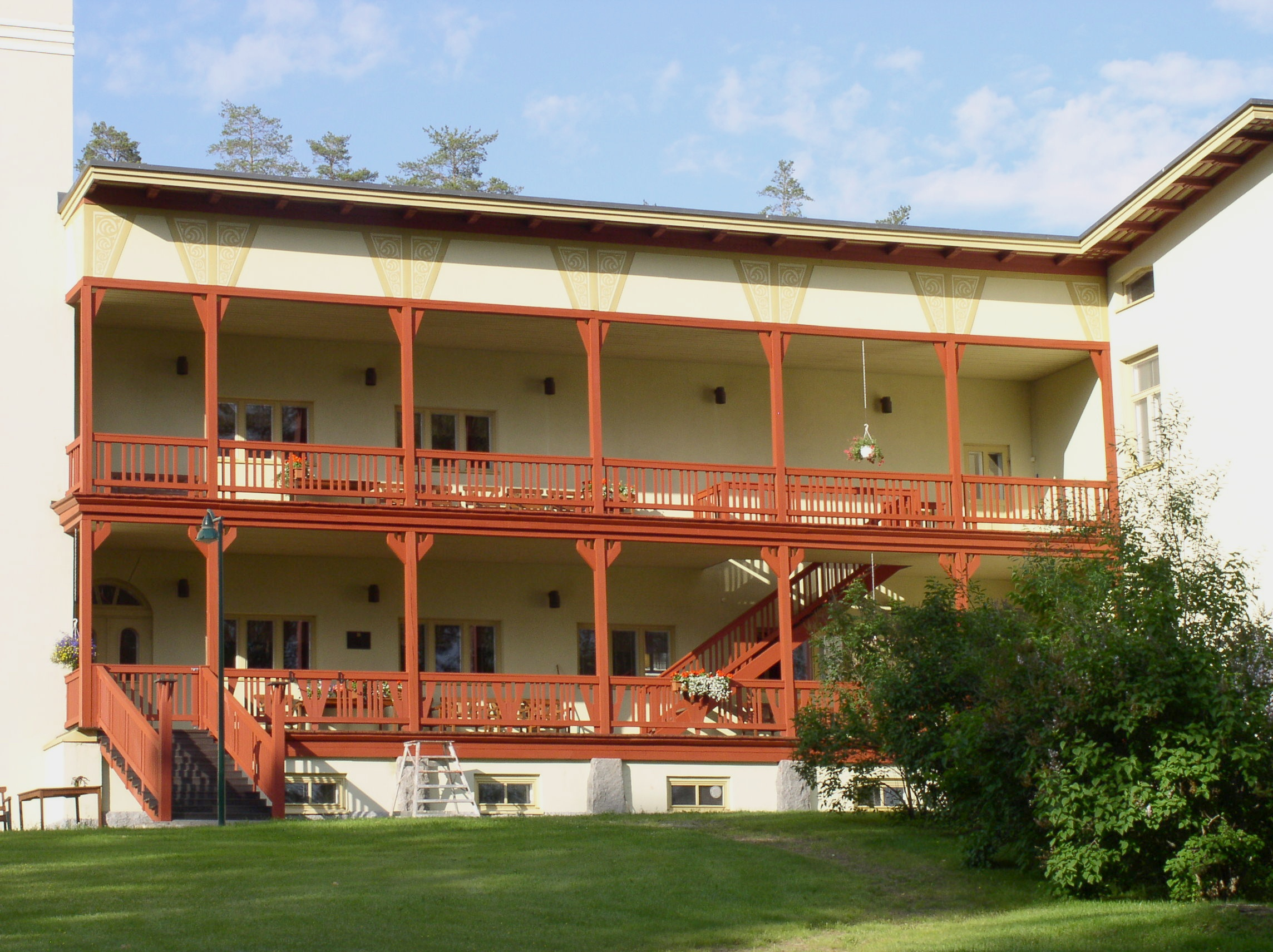 A part of the facade, Takaharju Sanatorium (build 1903, now Kruunupuisto - Punkaharju rehabilitation centre) by architect Onni Törnqvist in Punkaharju, Finland.